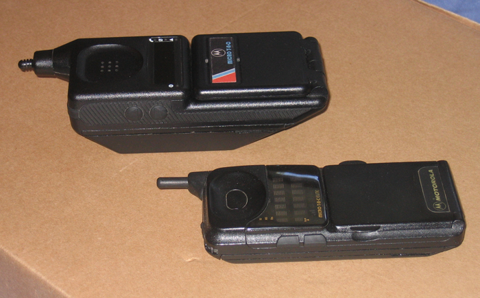 A size comparison between the 9-ounce 1989 MicroTAC, fitted with a Talk-Pak XT battery and a 3.9 ounce 1994 MicroTAC Elite VIP fitted with the Slim Battery. I took this picture, and both phones are from my personal collection.